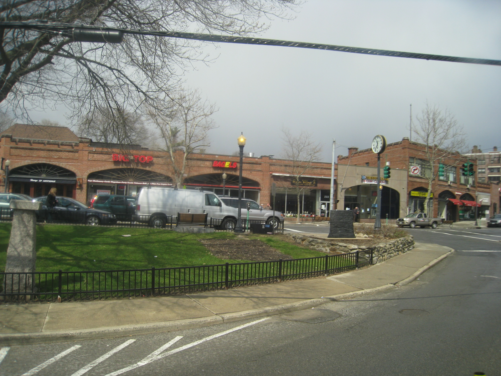 Looking northwest from Hartsdale Train Station plaza.